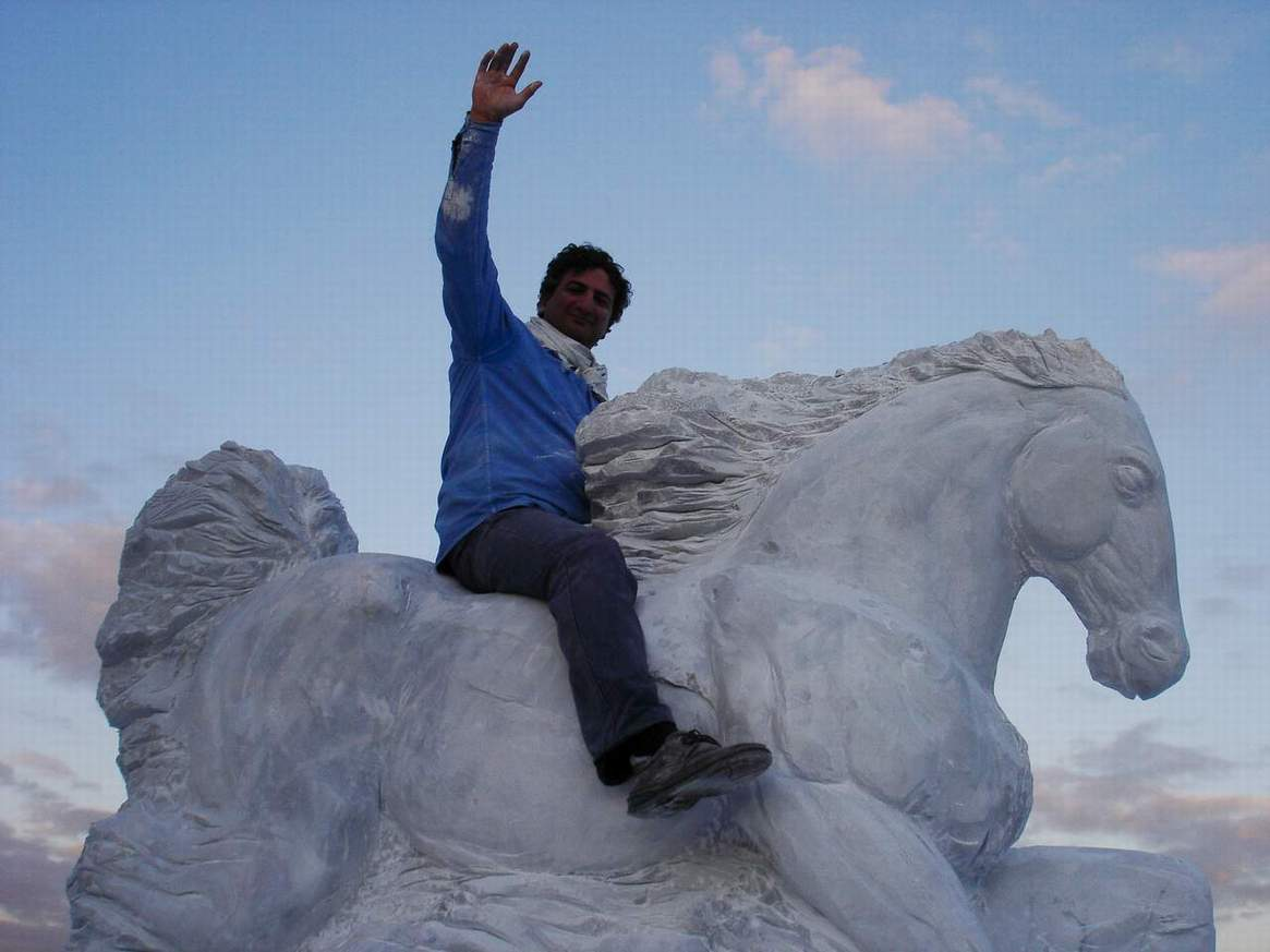 Hayk Tokmajyan, works